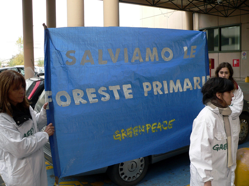 Greenpeace activists show to promote recycled paper agains the forests cut in 2006